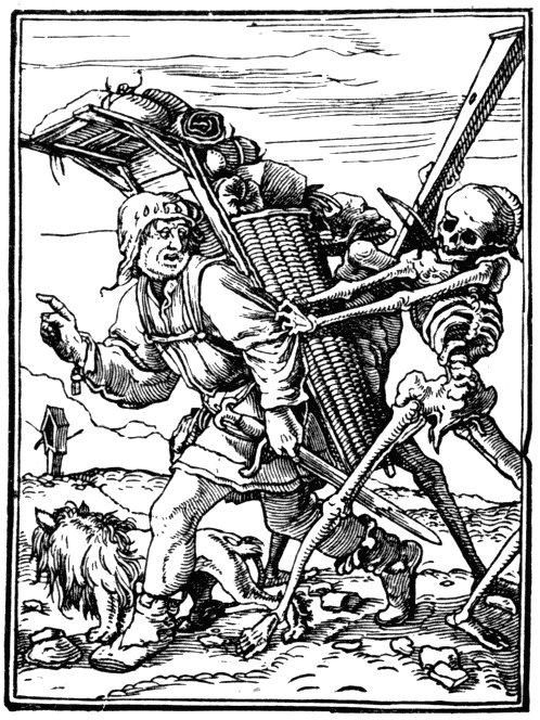 The Pedlar, from 'Dance of Death.'